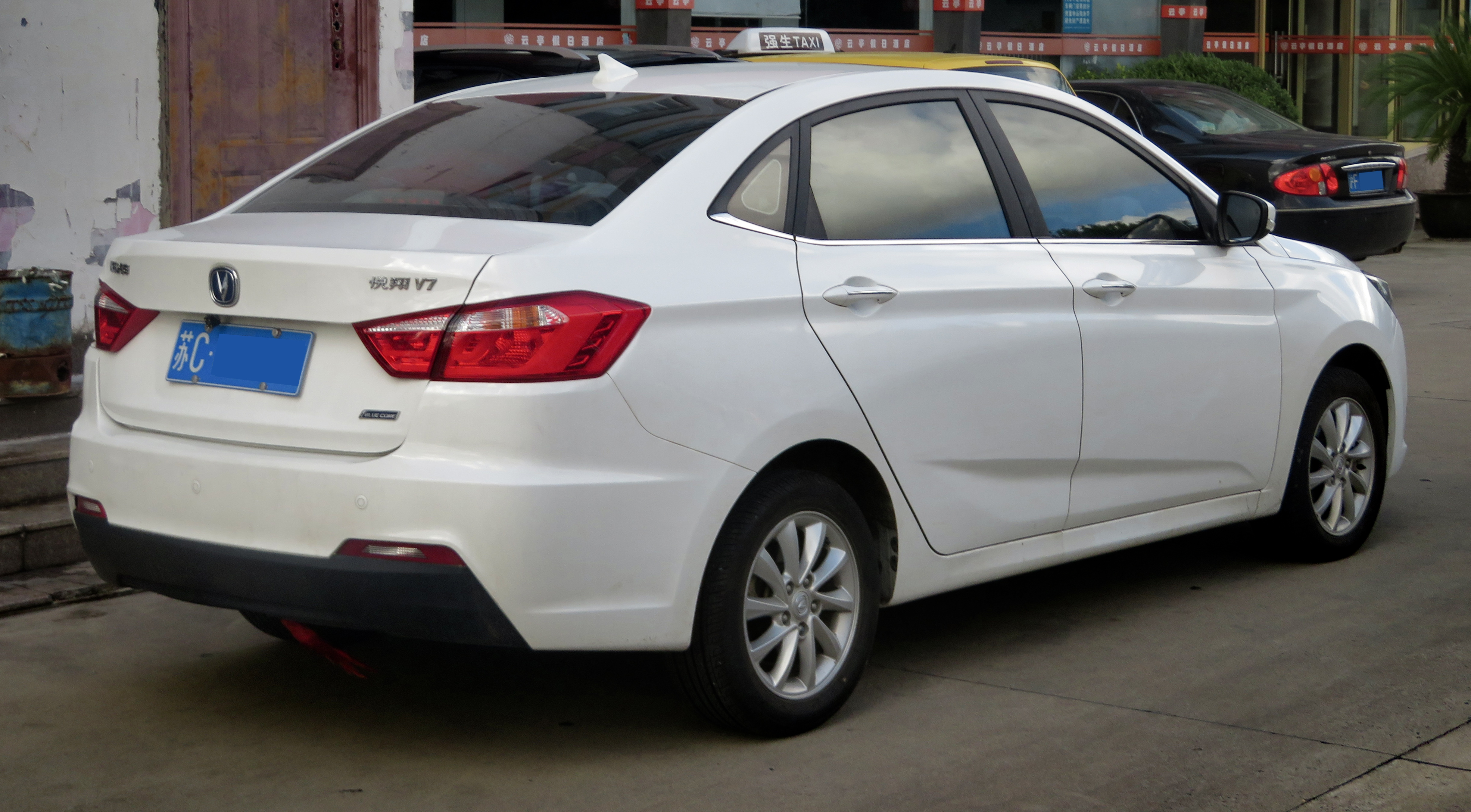 A 2016 Chang'an Alsvin V7 photographed in Shanghai, China